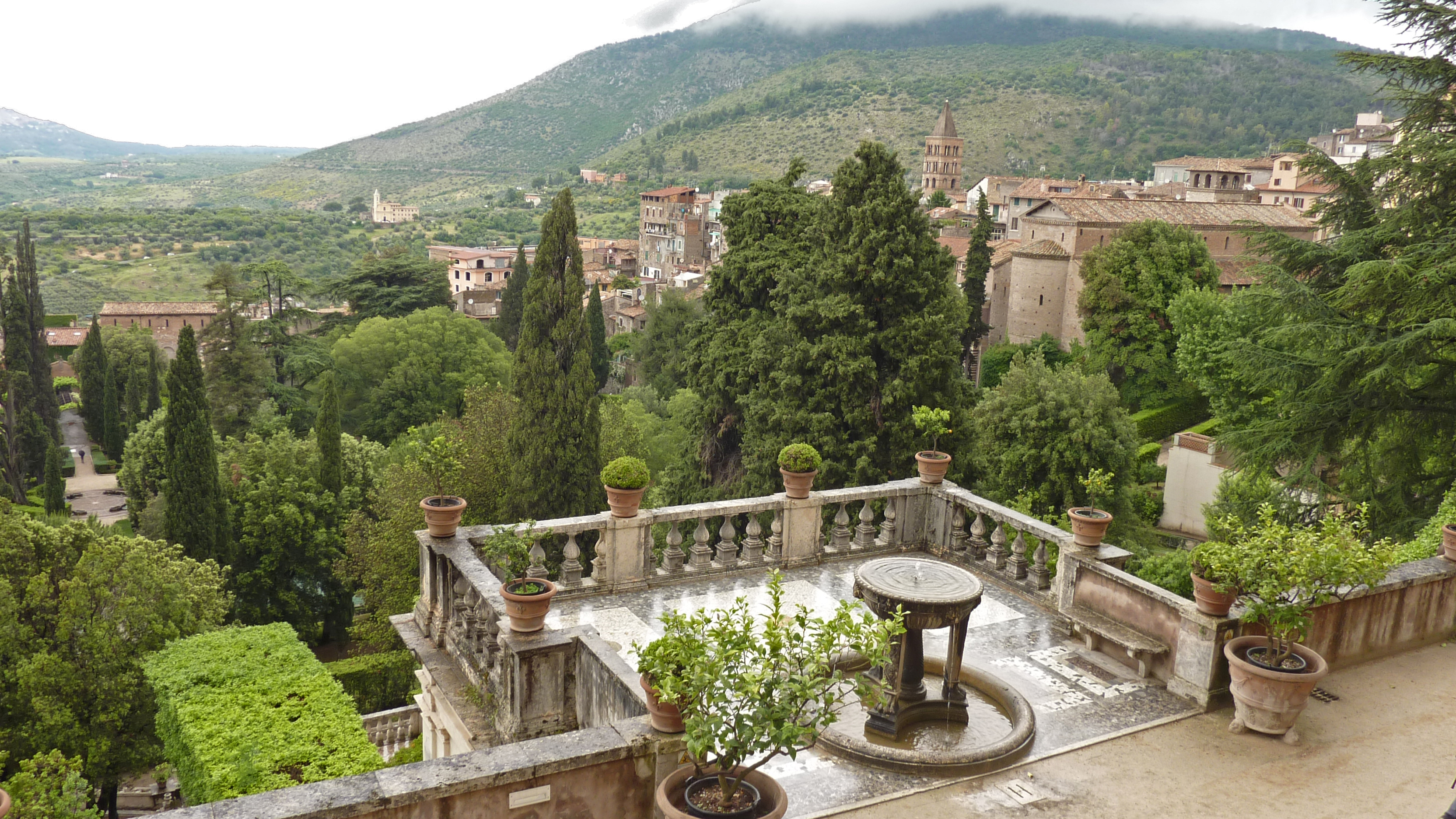 Villa d'Este